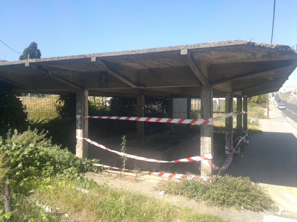 Lavadoiro na Moura, San Cristovo das Viñas, A Coruña (Galiza).